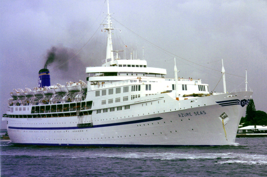 The cruise ship Azure Seas leaves Port Everglades's harbor on December 8, 1991.